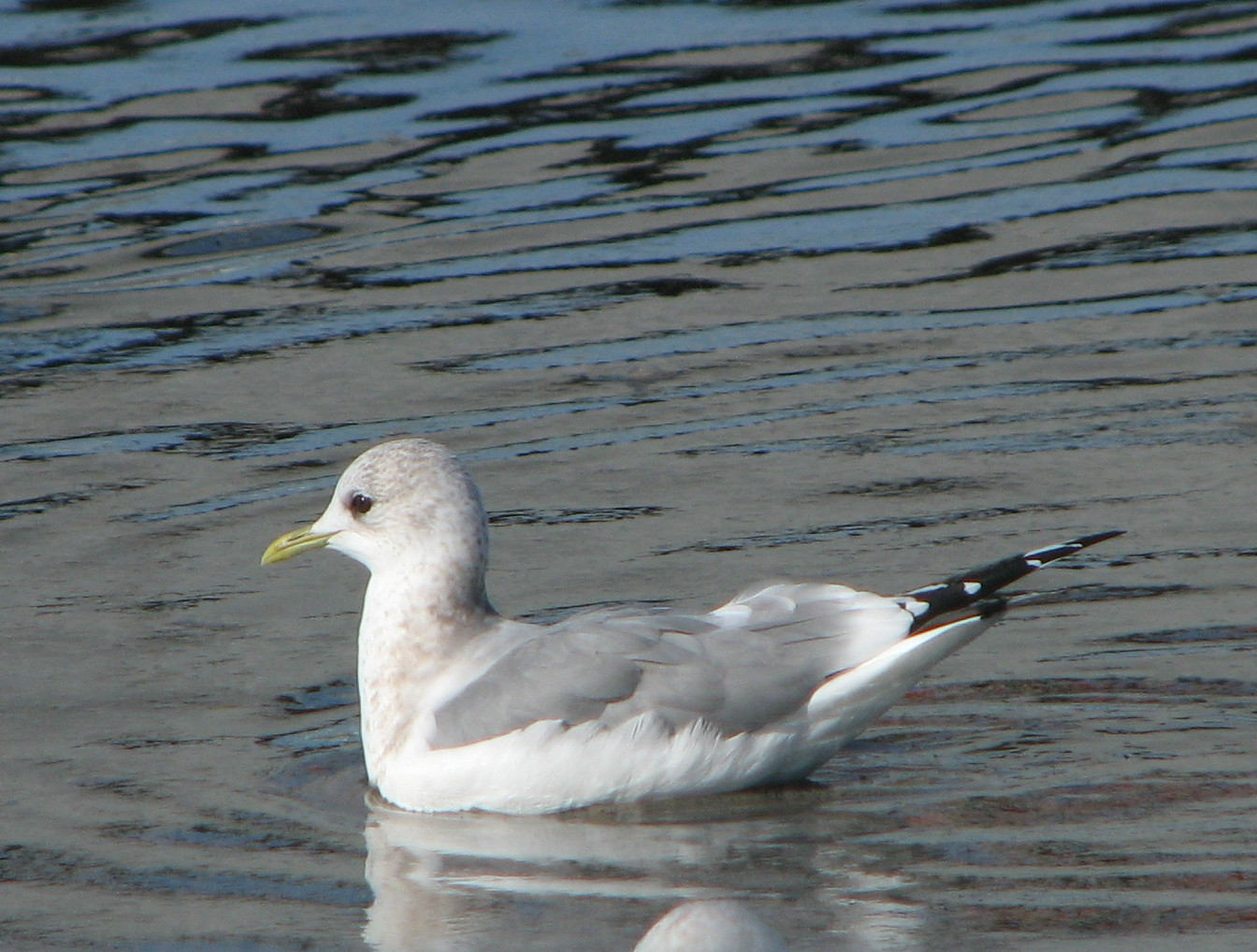 Mew Gull